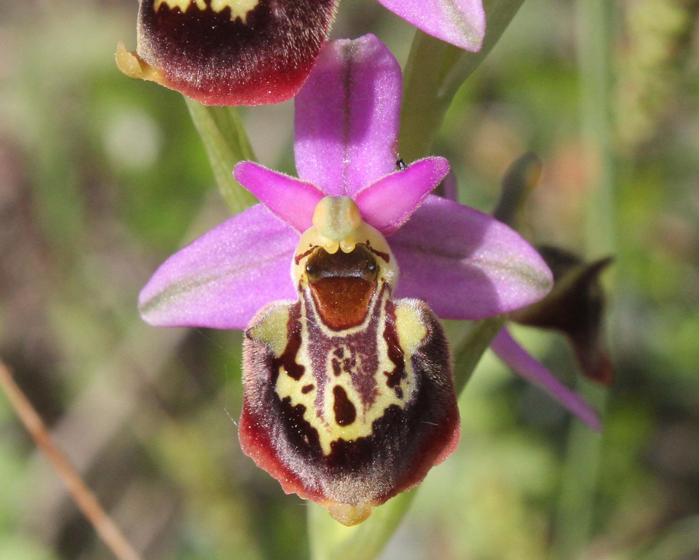 Ophrys × homeri labellum